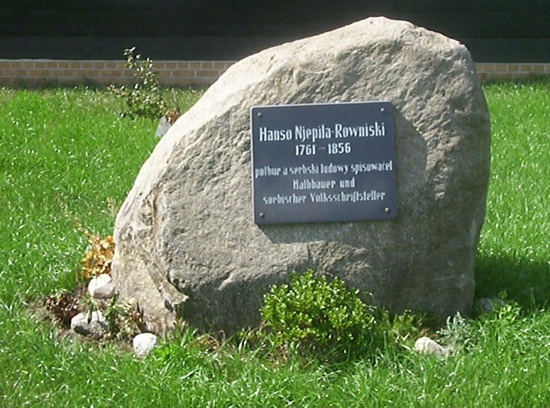 Memorial stone for the Sorbian peasant and writer Hanso Njepila in front of his birth house in Rohne, Saxony The birthdate is wrong, 1 August 1766 has been revealed in recent years.